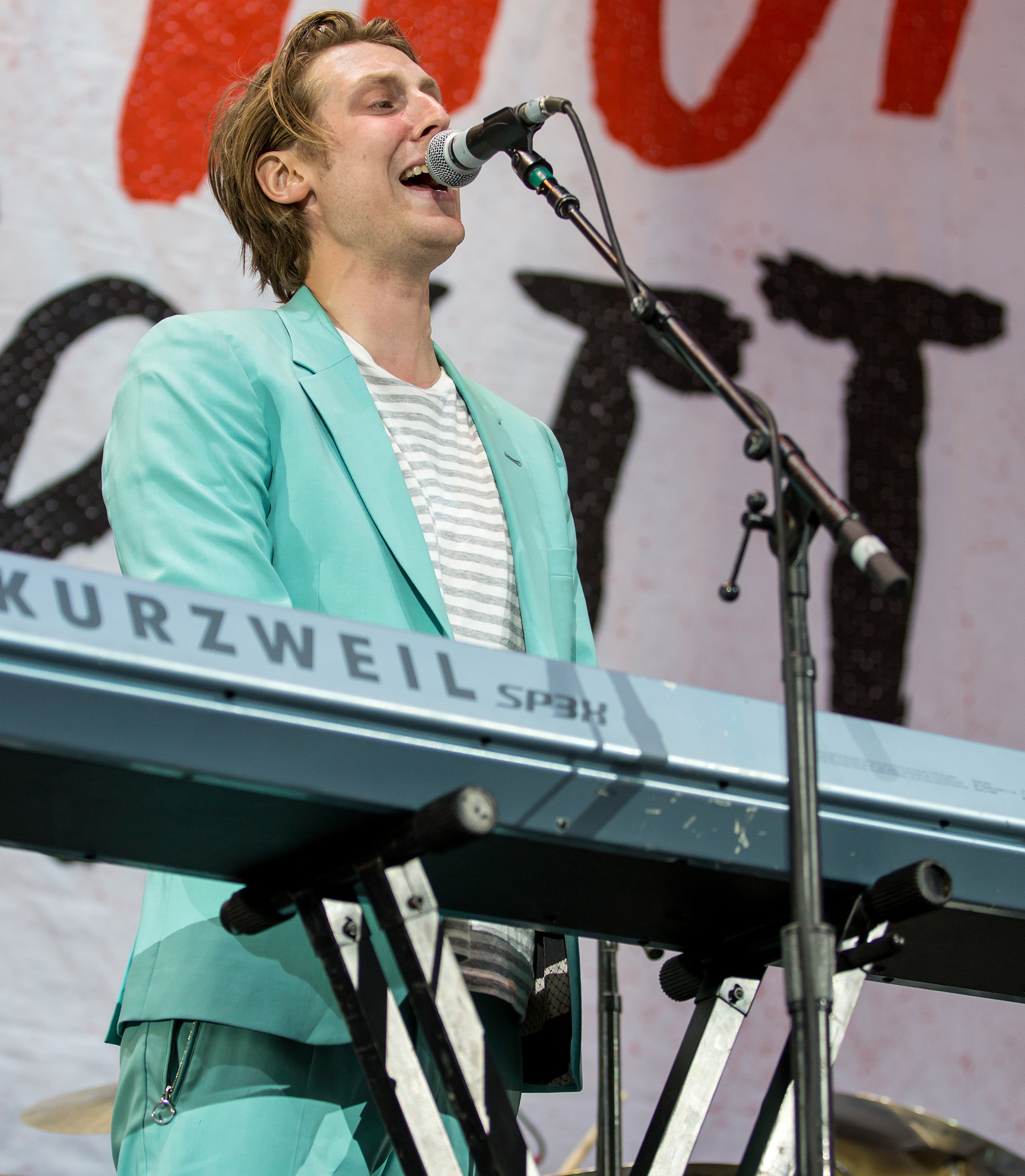 Eric Hutchinson performing on stage during the 2015 Piece By Piece Tour held at the Austin360 Amphitheater in Austin, Texas on August 29, 2015.